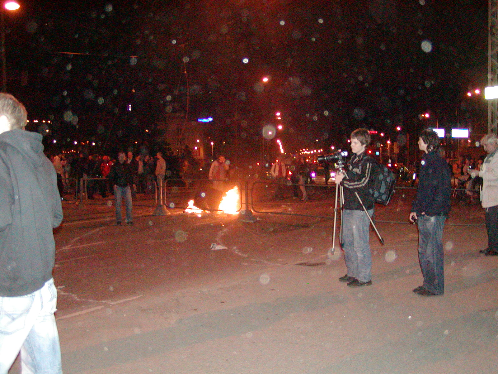 Protest against the demolition of the Bronze Soldier of Tallinn, a World War II memoral commemorating the libration of Estonia from Nazism by Soviet forces.